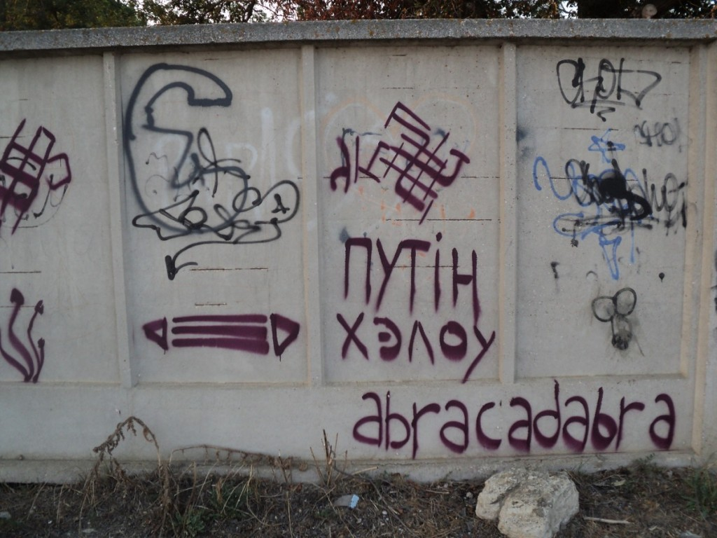 Mixed Ukrainian-Russian writing of "Putin Hello" at the fence at Kerch, Crimea, August 2014